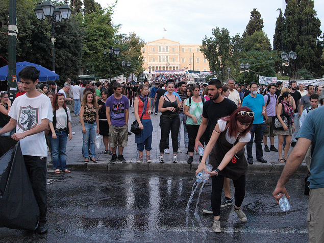 Members of the Indignant Citizens Movement on their 22nd consecutive day of protests in front of the Greek parliament, cleaning the streets around Syntagma Square.